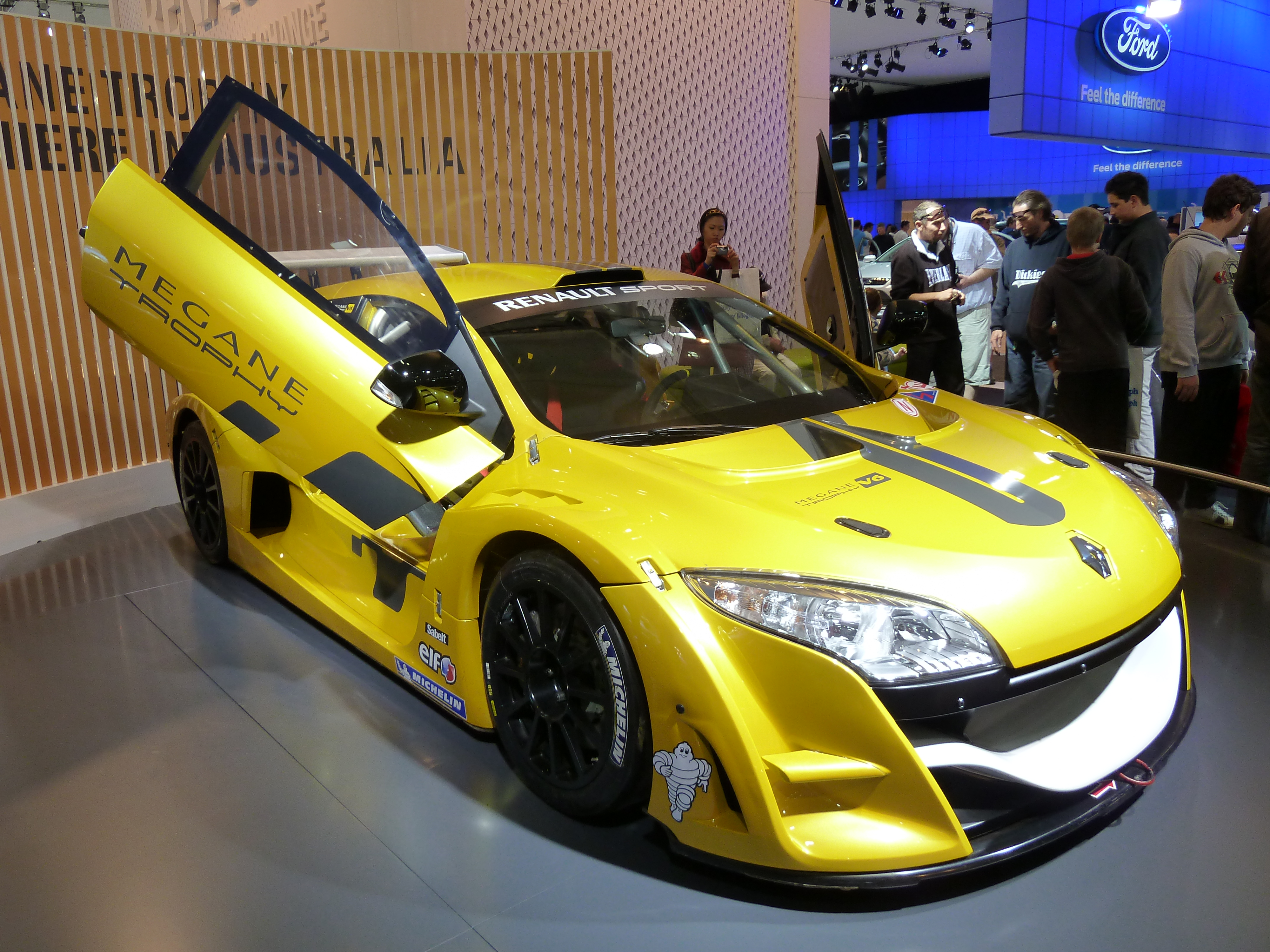 Renault Mégane Trophy coupe. Photographed at the 2010 Australian International Motor Show, Sydney, New South Wales, Australia.